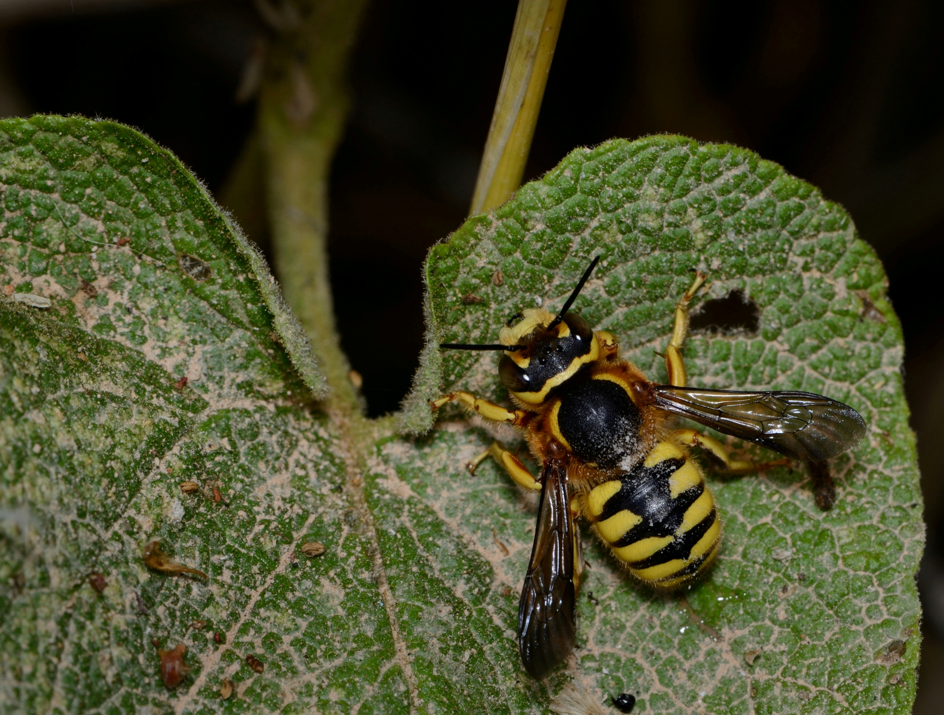 Trachusa pubescens, male resting on a leaf of Phlomis viscosa, Mount Carmel, Israel, May 10, 2012.